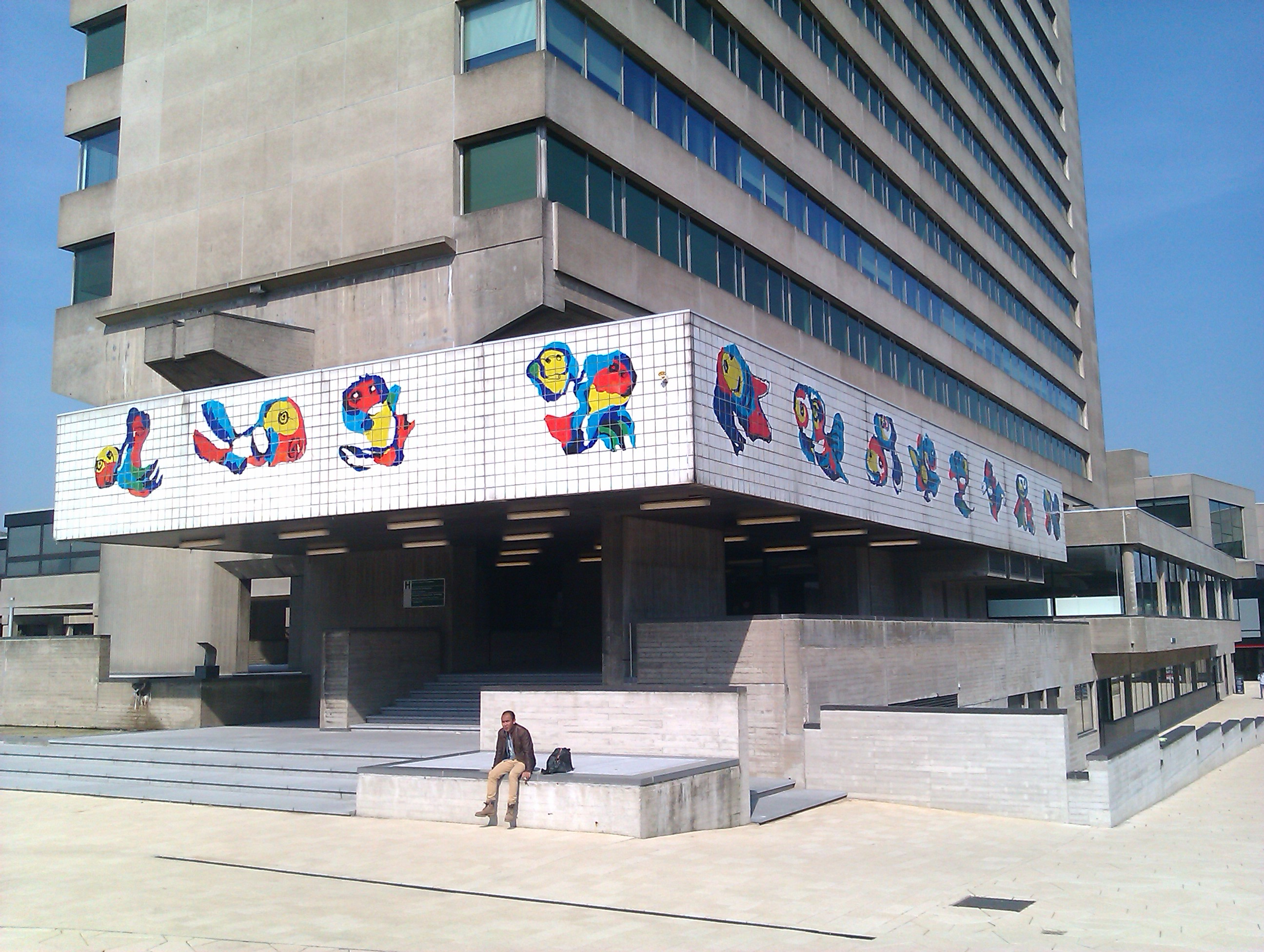 Tile decoration at Campus Woudestein by artist Karel Appel